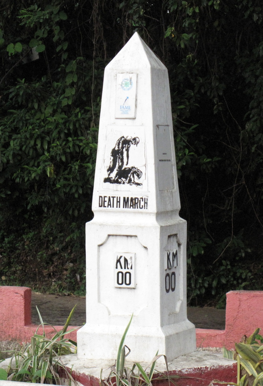 Bataan Death March roadside memorial kilometer marker, found along the main highway on the Bataan peninsula, Philippines.